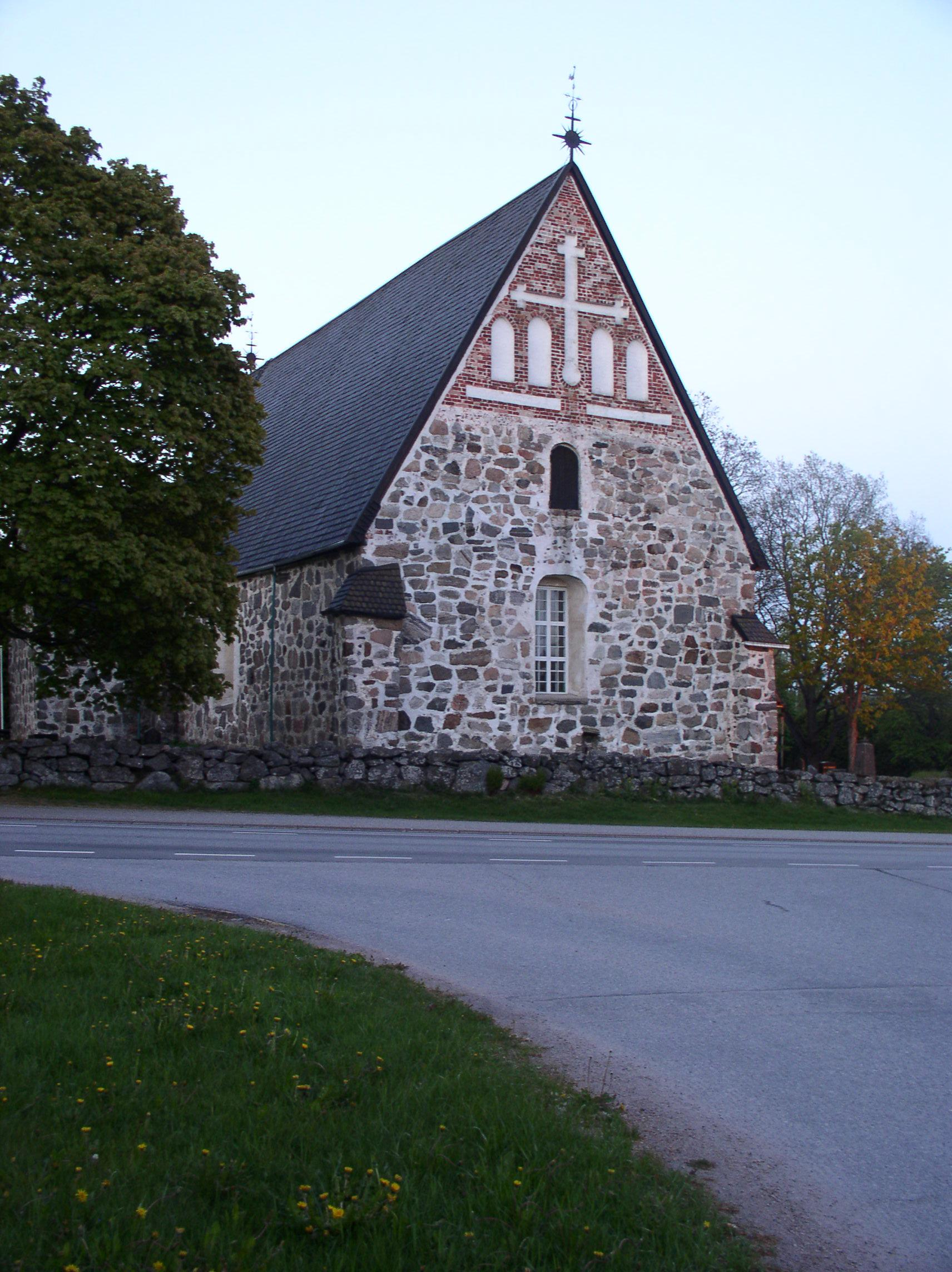 Masku church in Masku, Finland.